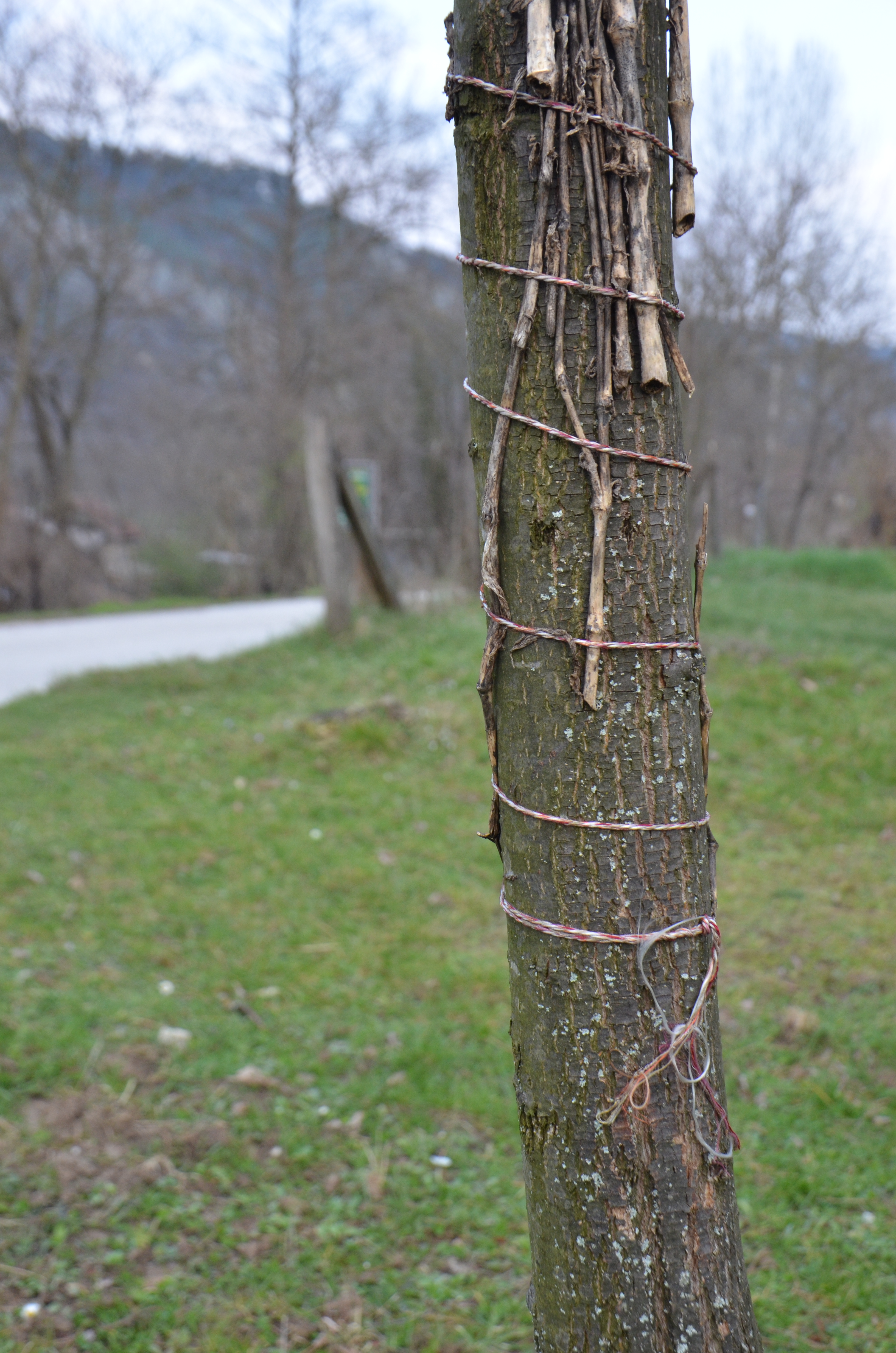 Zapis - Sacred Tree, Linden in village Lopatnica, municipality Kraljevo, Serbia Srpski (latinica): Zapis - lipa kod škole, selo Lopatnica, Opština Kraljevo, Raški okrug, Srbija Српски (ћирилица): Запис - липа код школе, село Лопатница, Општина Краљево, Рашки округ, Србија